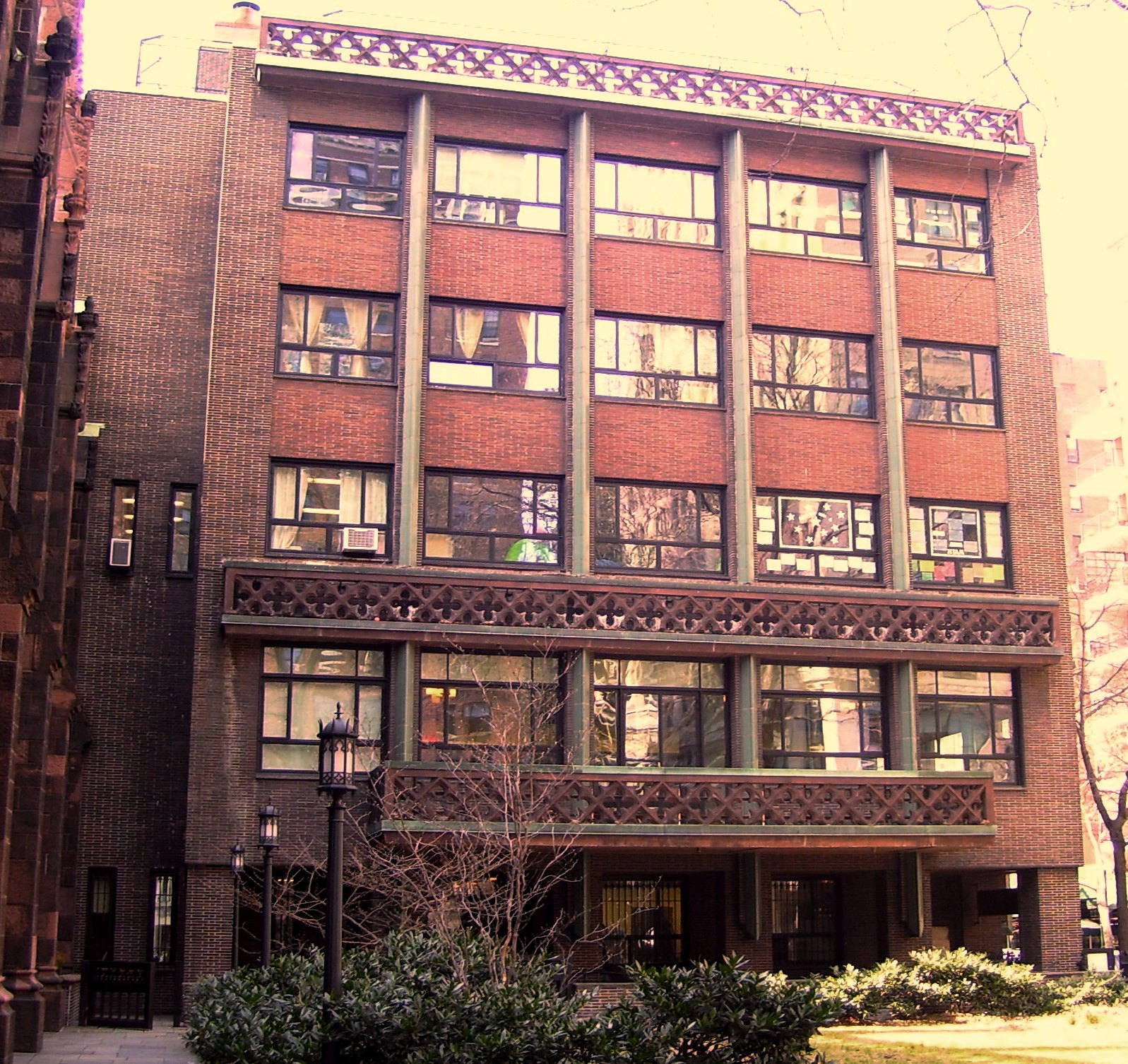 The Church House of the First Presbyterian Church in Manhattan located at 12 West 12th Street betweem Fifth and Sixth Avenues in the Greenwich Village neighborhood of Manhattan, New York City, was built in 1958-60 and designed by Edgar Tafel.